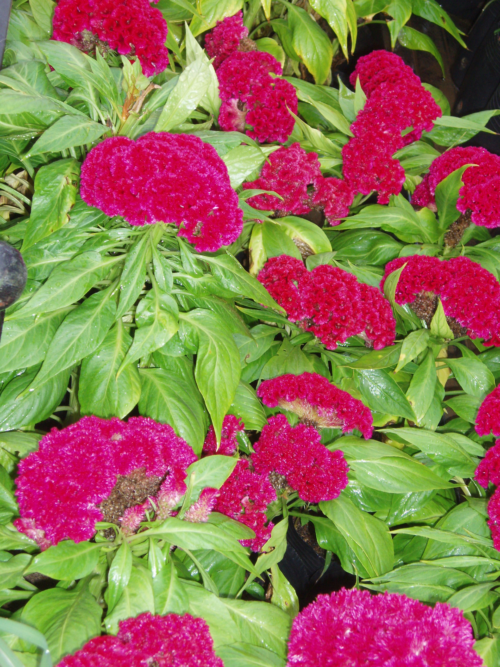 Cockscomb flowers